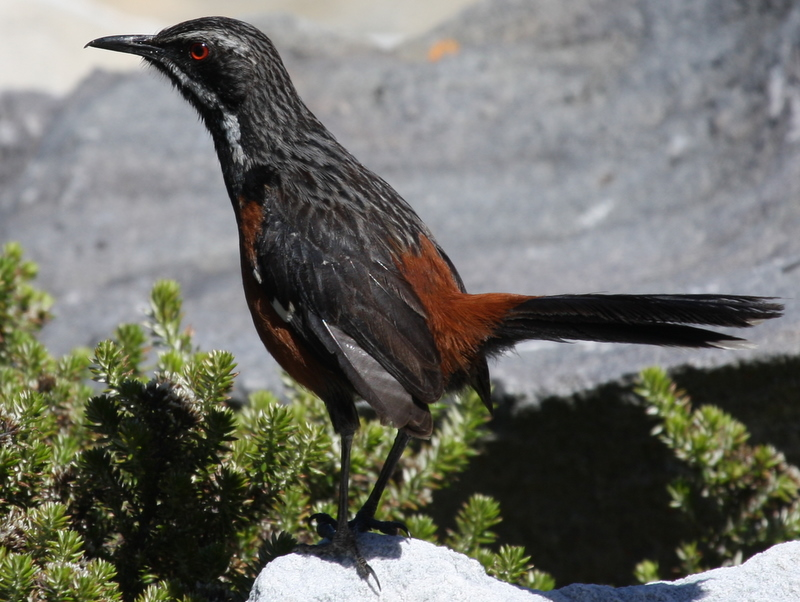 Cape Rockjumper Chaetops frenatus, Rooi Els, South Africa. See and for more details.